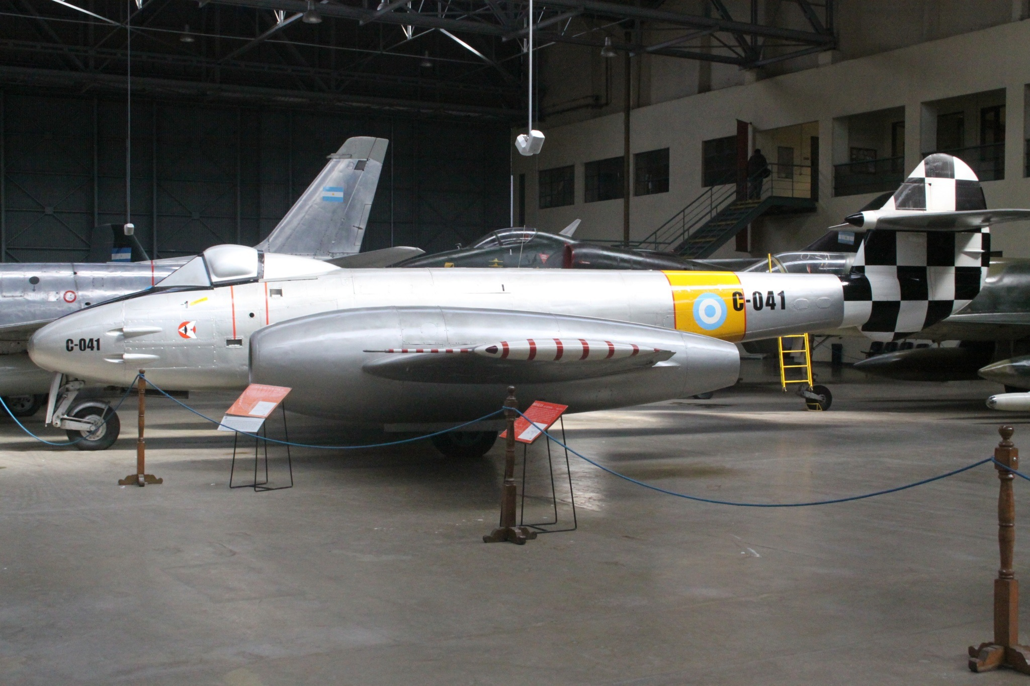 At Moron Museo Nactional De Aeronautica